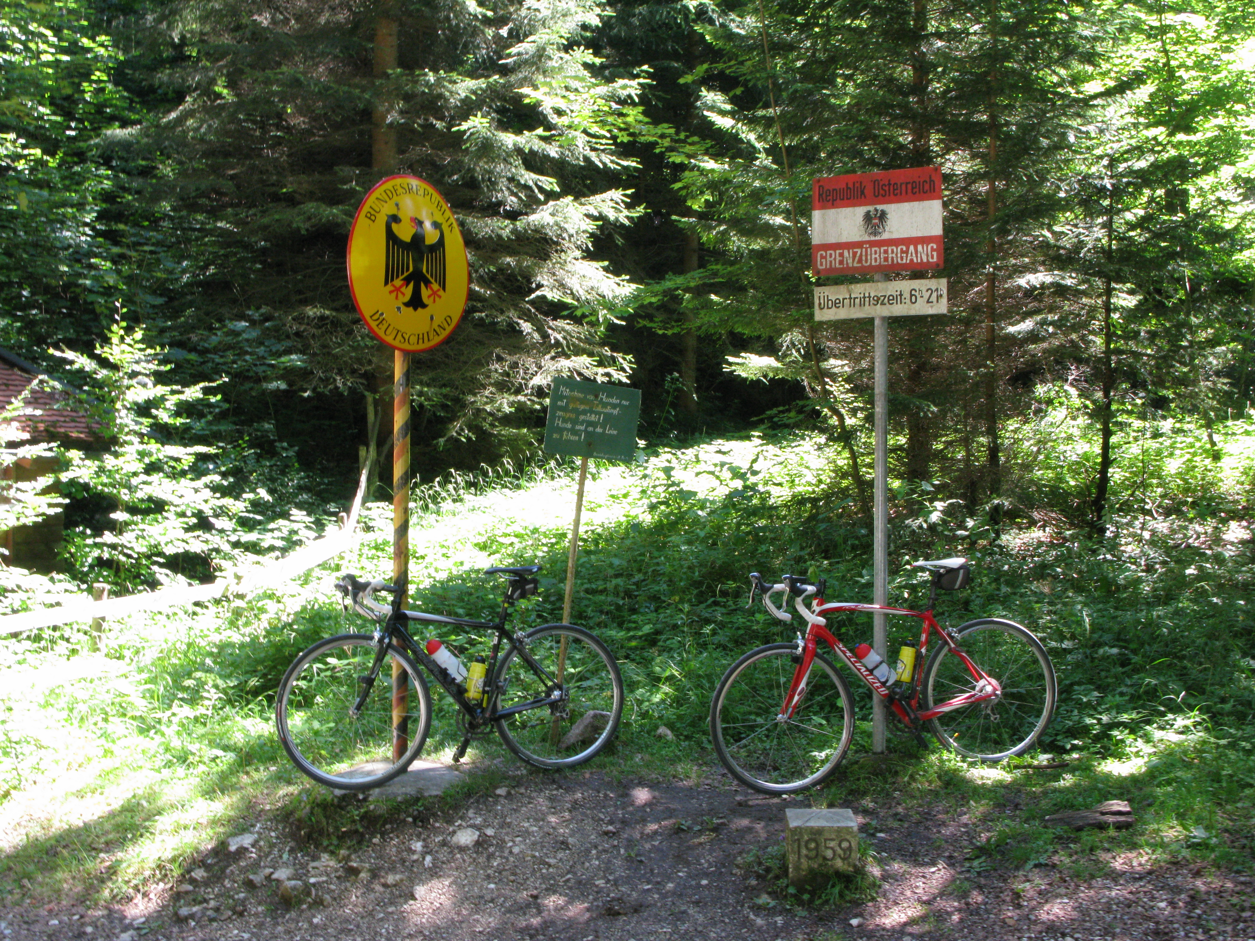 A border post on a cycle trail in the Alps (tarmacced neatly up to the German side of the border, then gravel in Austria). Disused for a few years courtesy of Schengen, but the signs and the border control hut are still there.